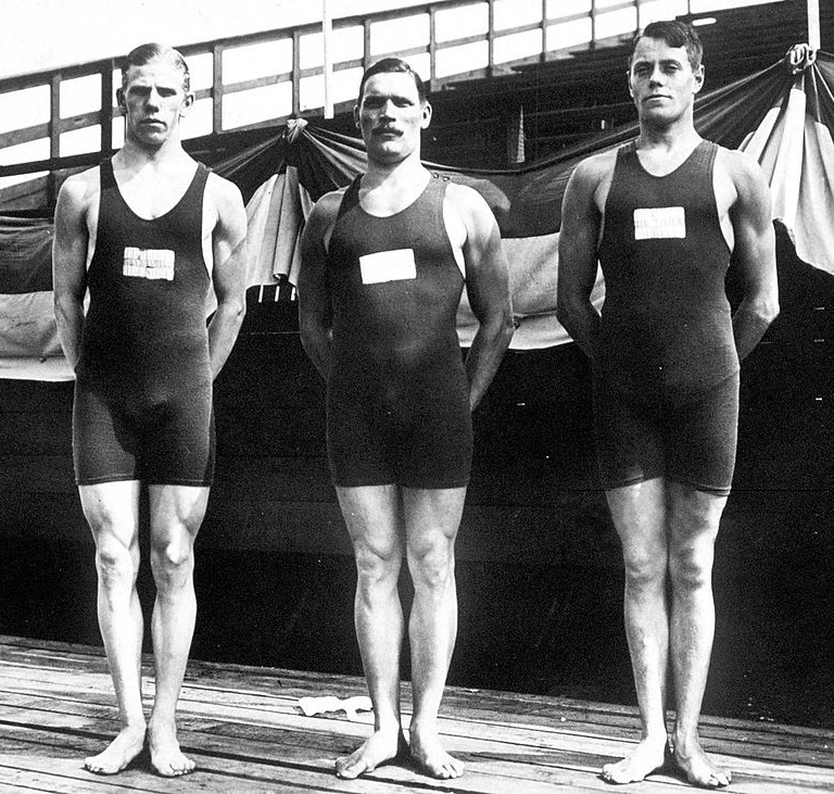 Olympic Games, Stockholm, Sweden, Plain Diving,Swedish trio L-R: Erik Adlerz who won the gold medal, Hjalmar Johannson (silver) and John Jansson